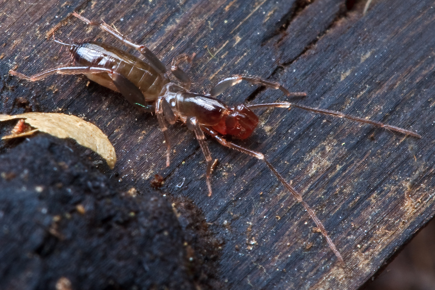 Female schizomid Hubbardia pentapeltis. Photo taken in College Heights, San Diego, California, USA.